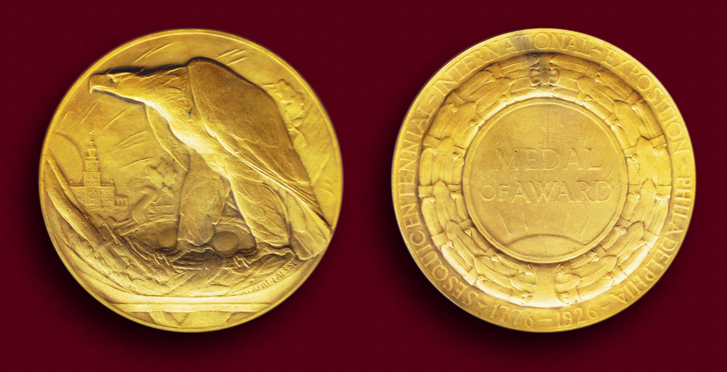 Sesquicentennial International Exposition Gold Medal of Award, Philadelphia, PA 1926 (1/8 x 2 7/8"; 5mm x 72mm) Designed and sculpted by Albert Laessle, Manufactured by Bailey, Banks & Biddle Co., Philadelphia, PA. Obverse: Eagle standing guard over nest with two eggs, Independence Hall and rising sun in background. Reverse: Laurel wreath with central: Medal of Award. Edge text: Sesquicentennial International Exposition Philadelphia 1776-1926 Source: "The Cooper Collections" (uploader's private collection); Photographed and composite digital image by the uploader, Centpacrr